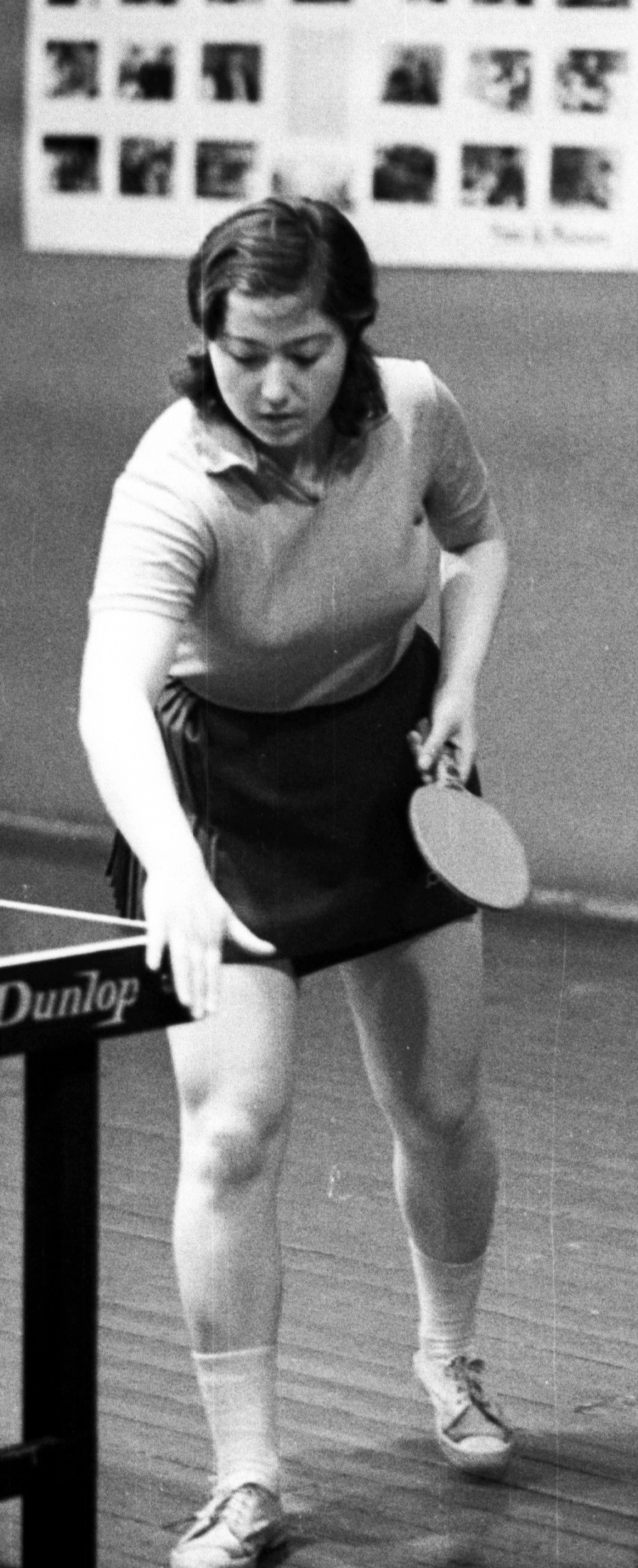 Elmira Antonyan in 1973